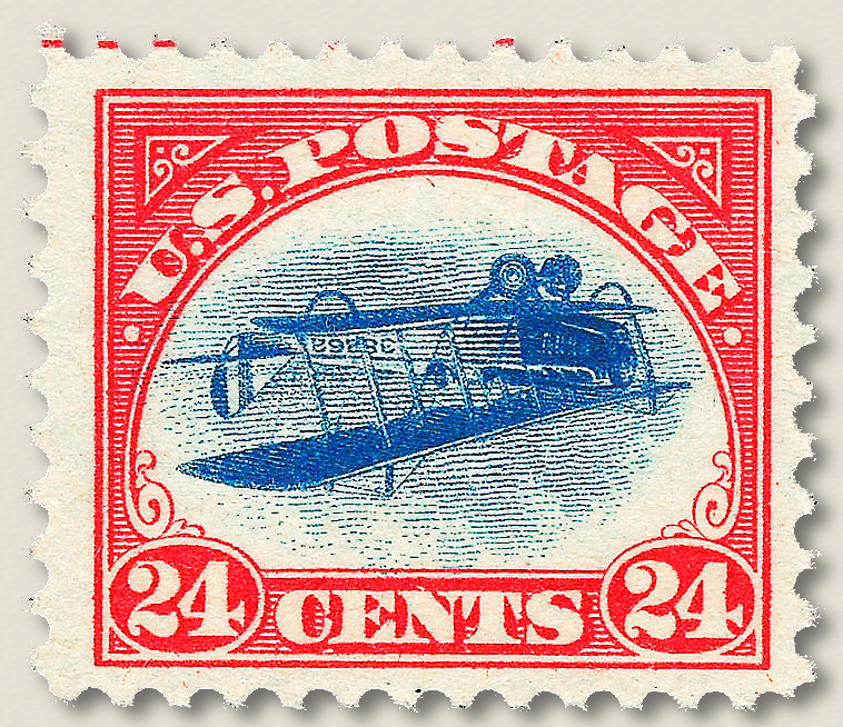 1918 U.S. Air Mail $.24 stamp printing error (C-3a) "Inverted Jenny" sheet position 57. This stamp sold at auction in 2007 by Robert A. Siegel Auction Galleries (Sale 946a) for $977,500.00.